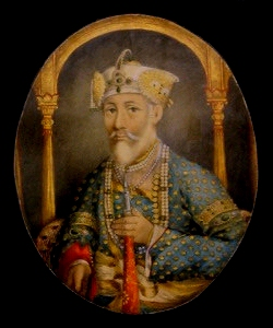 Akbar II was the 19th Mughal emperor.